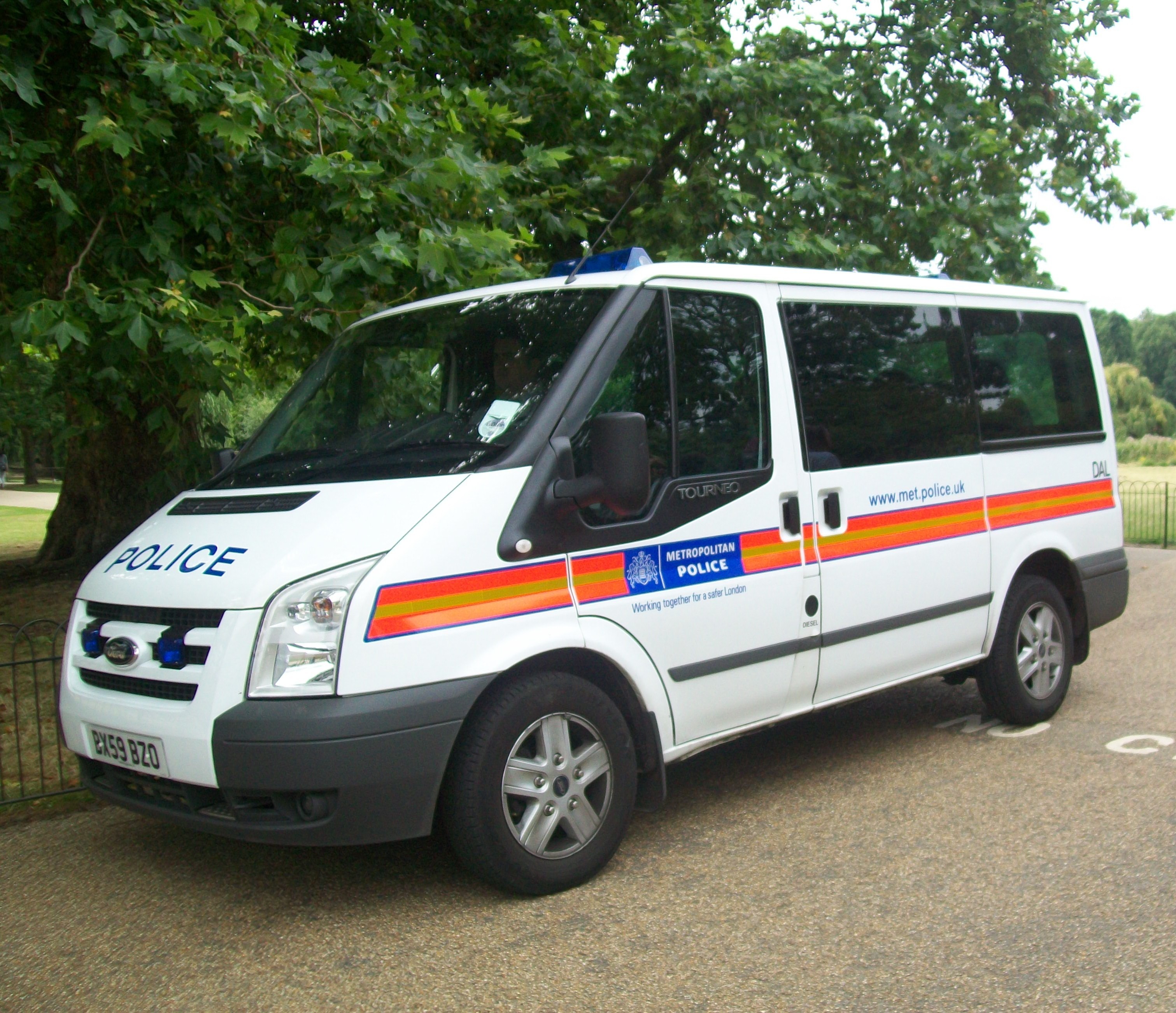 Metropolitan Police Ford Tourneo parked up in St James Park,London.